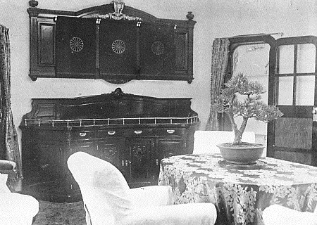 Imperial chamber of Battleship Hiei